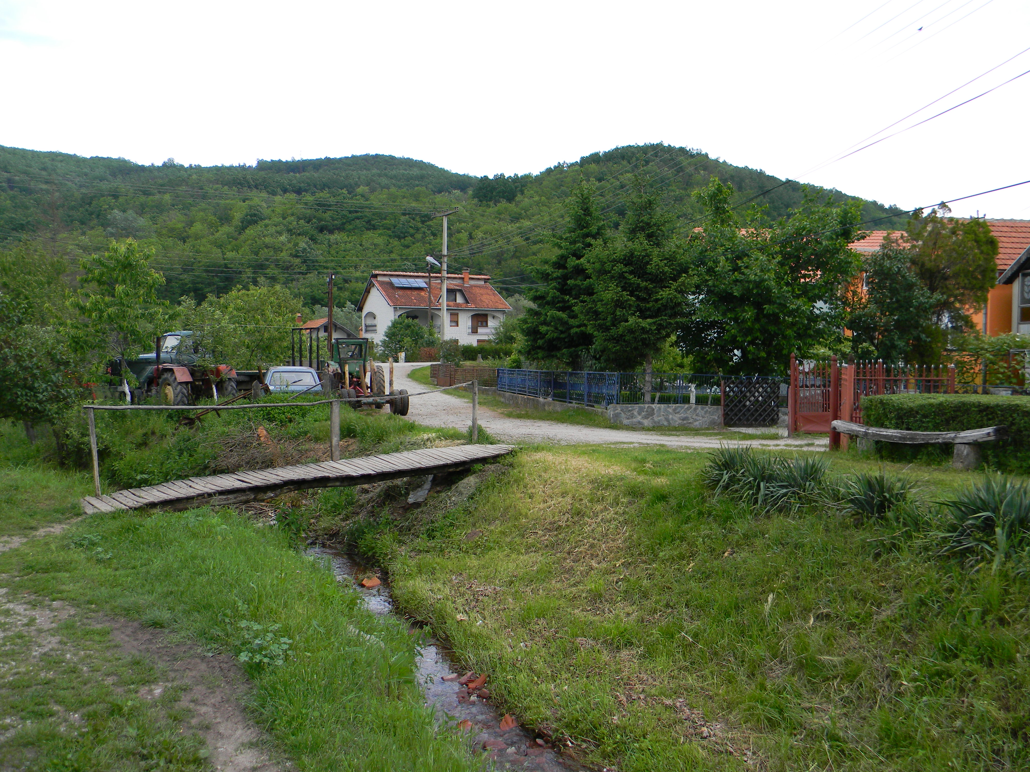 Streamletin Stenjevac